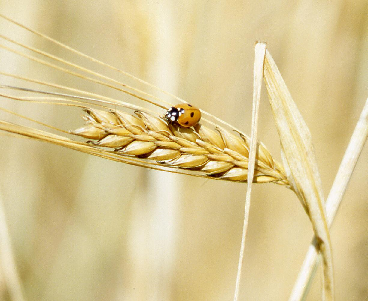 A lady beetle perches on barley.